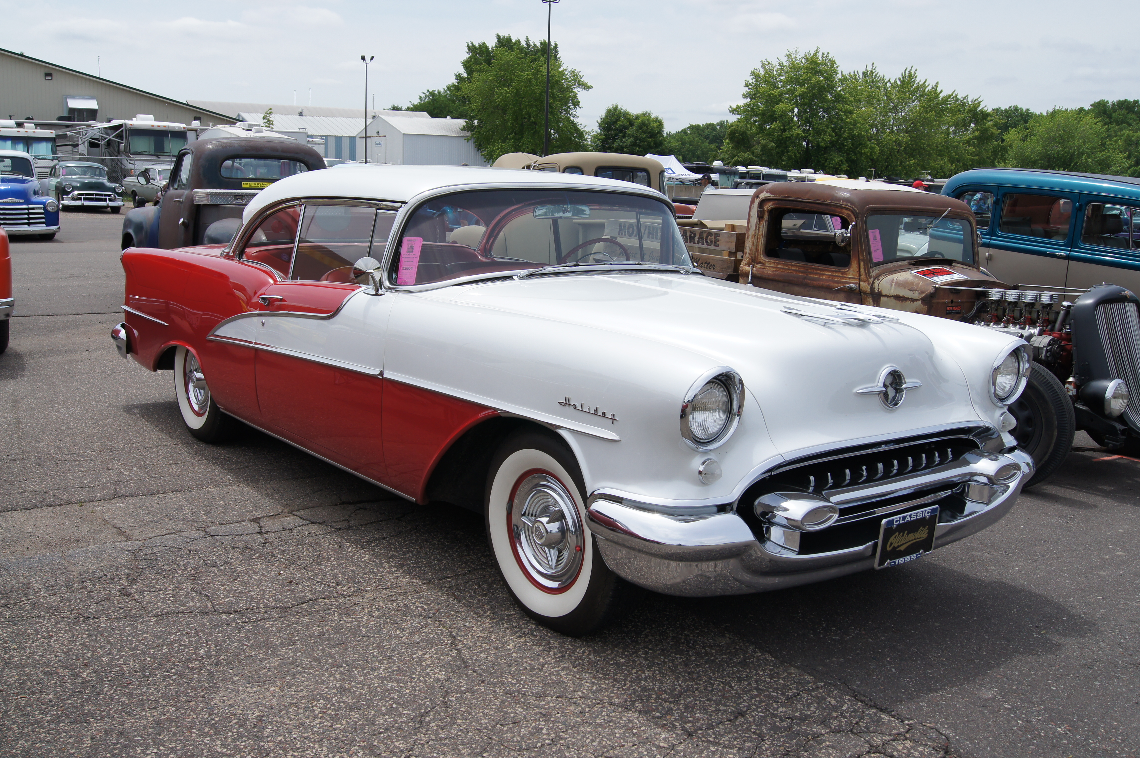 MSRA “BACK TO THE 50′s” 40th ANNIVERSARY June 21-23, 2013 State Fairgrounds St. Paul Minnesota More Car Pictures